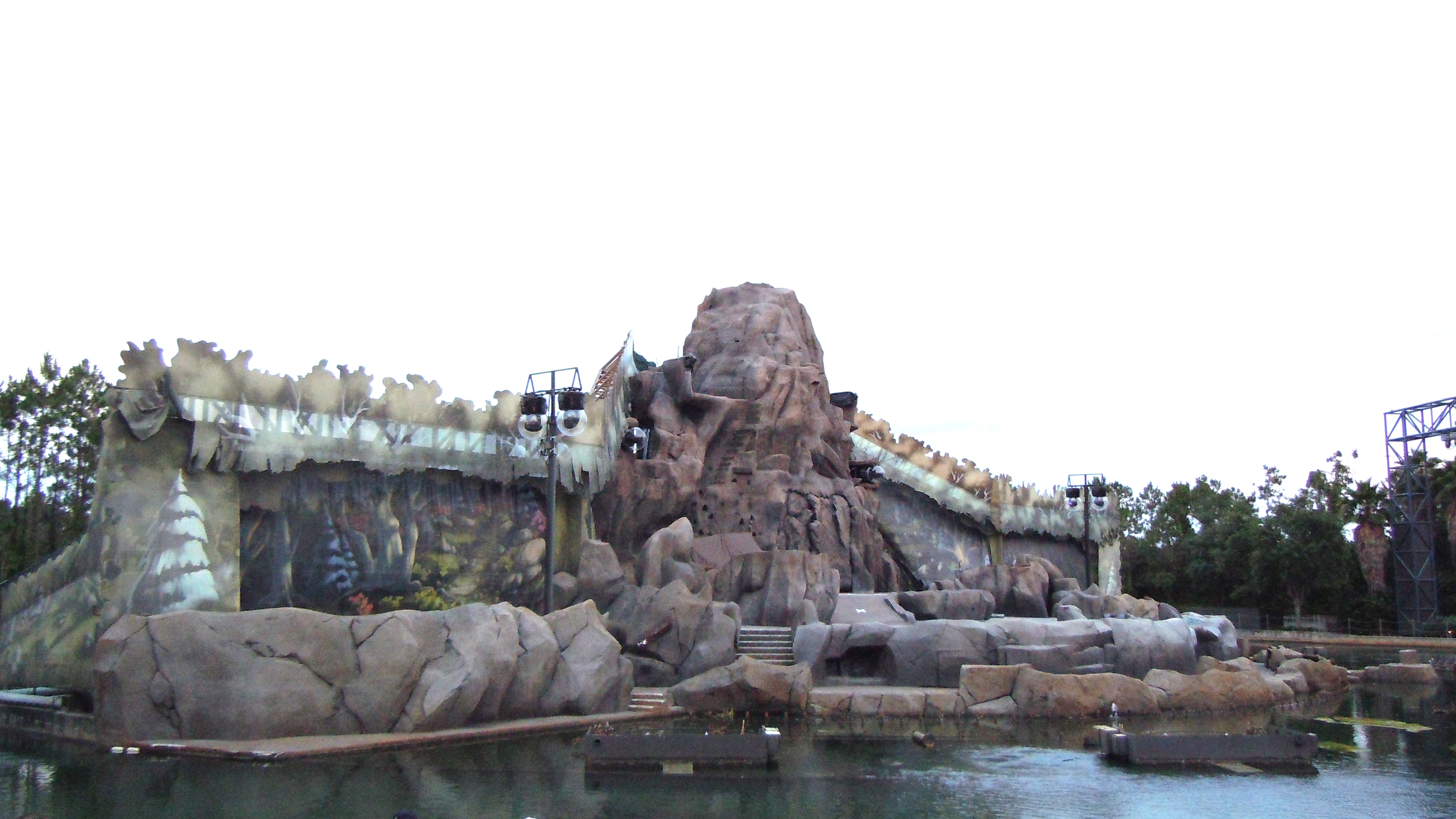 The stage view of the Hollywood Hills Amphitheather at Disney's Hollywood Studios at the Walt Disney World Resort in Florida, USA.